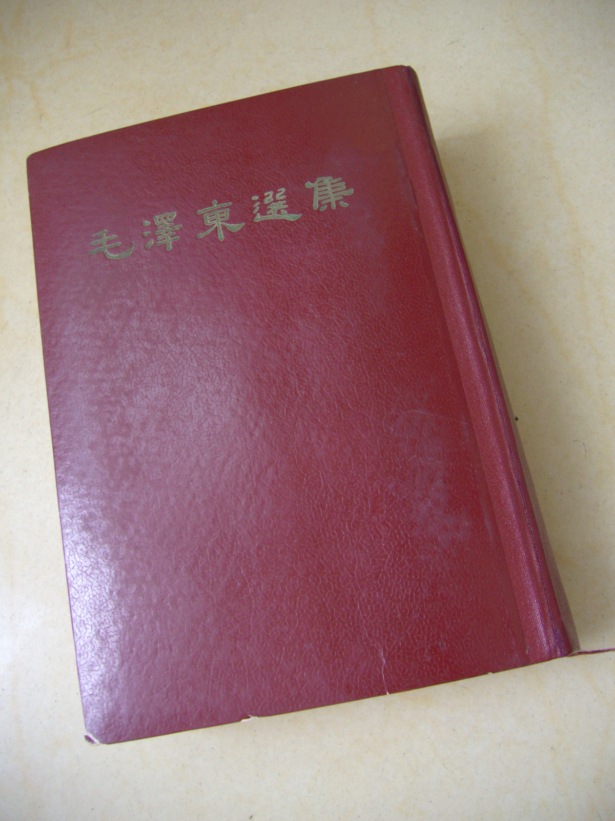 文革前的毛泽东选集